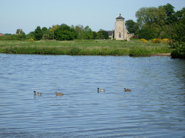 Broad Water, Great Livermere. Looking across the lake to Great Livermere church.